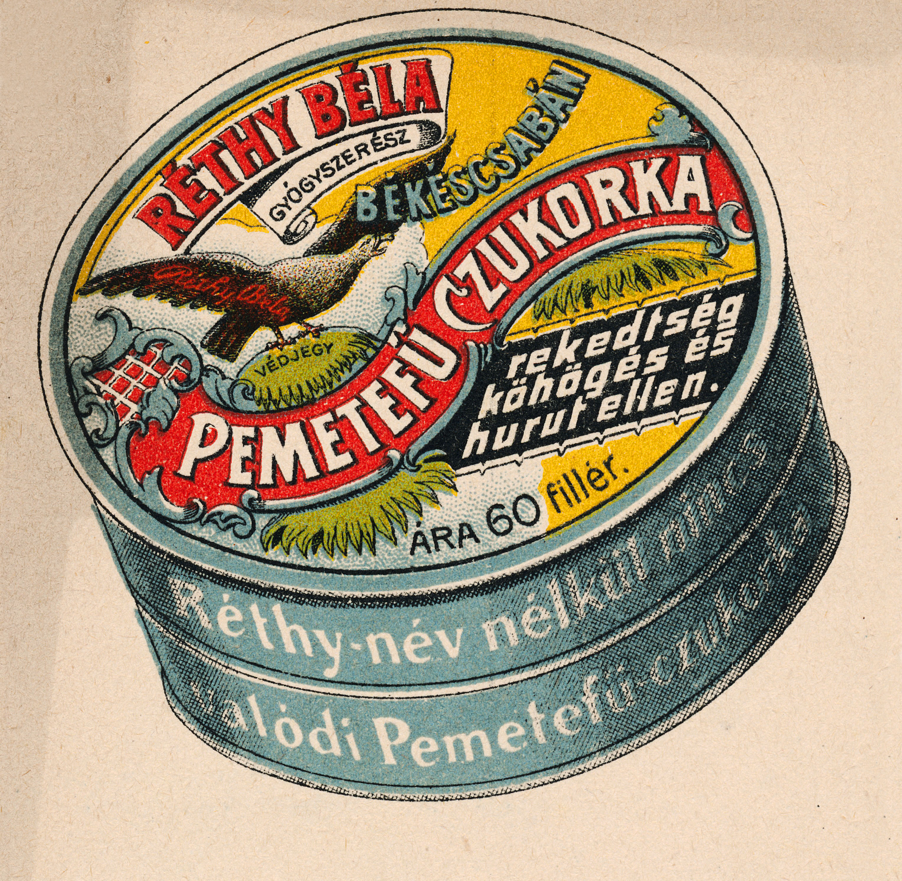 Advertising - Horehound candy box by Rethy Bela Bekescsaba - Hungary 1907.